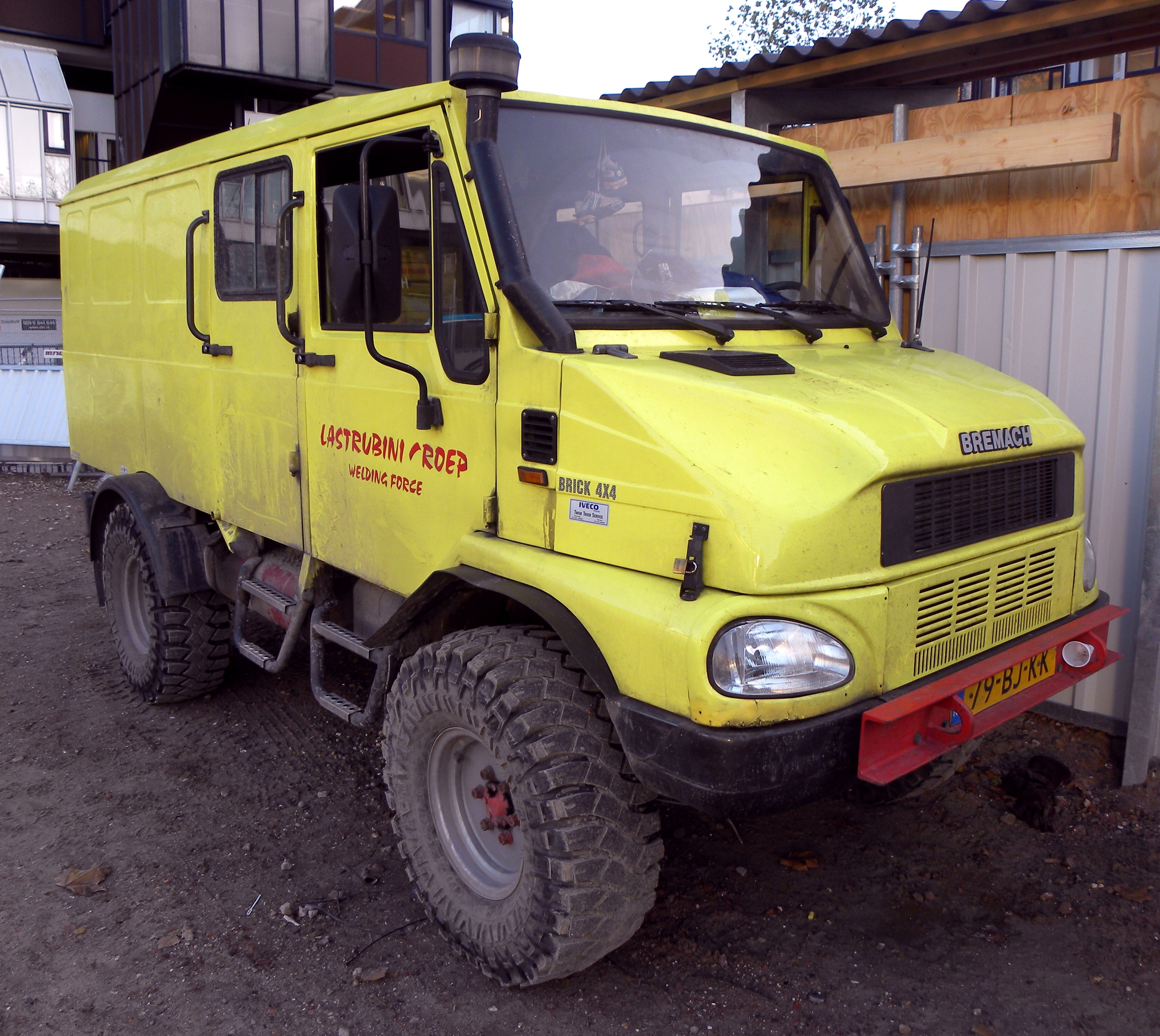 Iveco Bremach TGR 35.4